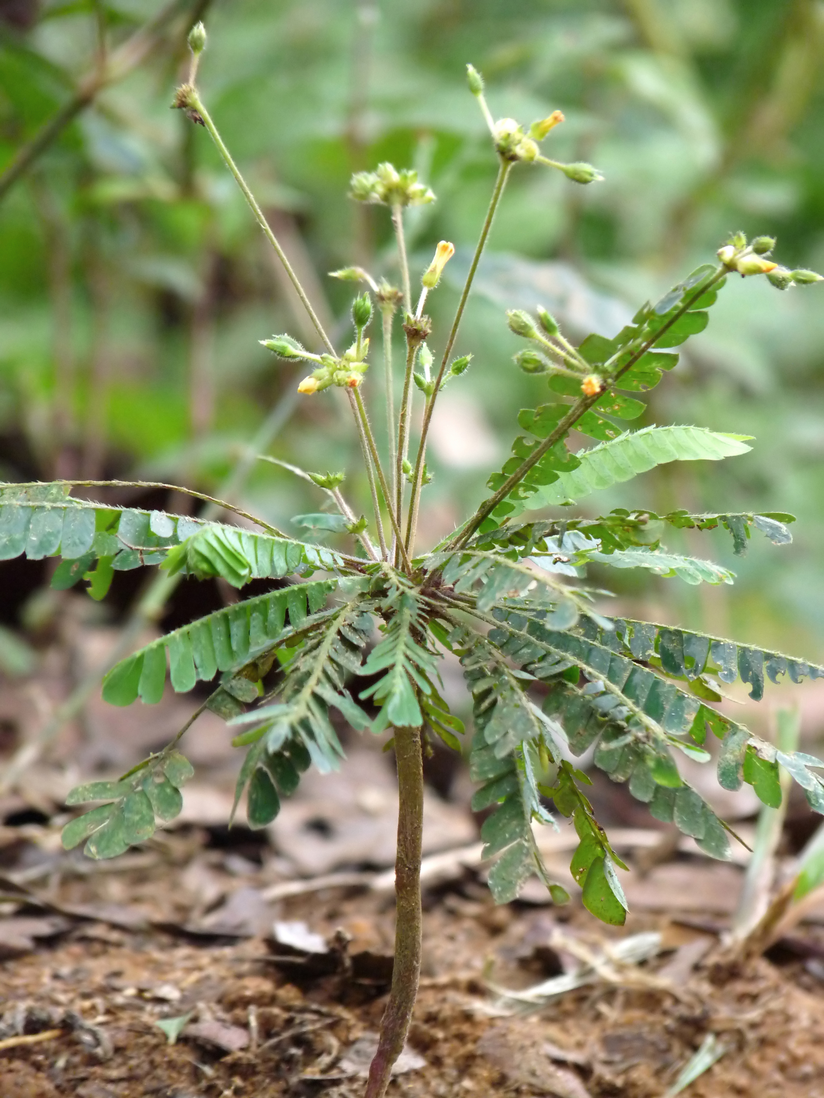 Biophytum reinwardtii, [1] [2] Reinwardt's Tree Plant is an annual herb which looks like a miniature tree. It is closely related to the Little Tree Plant, Biophytum sensitivum. It is named for Caspar Reinwardt, 19th century Dutch naturalist and biologist. It grows to only 6-12 cm tall, and has erect, hairy stem. Leaves are compound, 5-7 cm long, crowded near the base. Leaflets are oblong, 1 cm long, stalkless, 14-20 pairs. Yellow flowers arise in umbels of 3-7 flowers, at the top, carried on a 5-7 cm long stalk. Reinwardt's Tree Plant is found in India, Sri Lanka, China, Malaysia, and also in the Himalayas, from Garhwal to Nepal, at altitudes up to 1000 m. Flowering: October-December. ↑ ↑